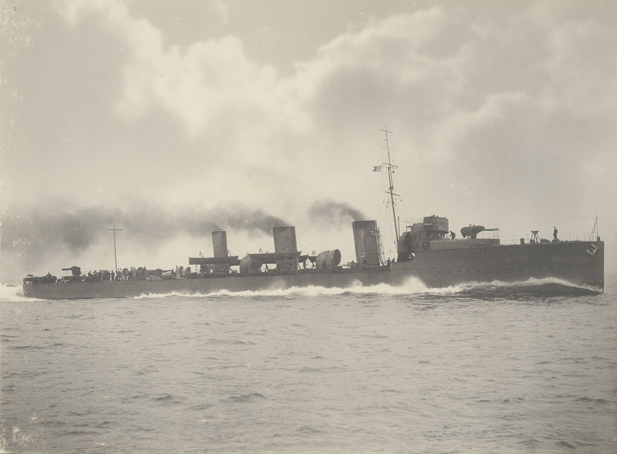 Starboard side view of the destroyer HMS Scourge, 1910. She was launched by the Hebburn shipyard of Hawthorn Leslie on 11 February 1910 (TWAM ref. DS.HL/2/100/3). HMS Scourge was a Beagle Class destroyer. She served in the Gallipoli Campaign in 1915, helping to transfer troops ashore. The shipyard of R. & W. Hawthorn Leslie at Hebburn built many fine warships. During the First World War the firm built 2 light cruisers, 3 destroyer leaders and 25 torpedo boat destroyers. The firm also built machinery and boilers for 2 battleships, and a further 3 light cruisers. These and other warships built by Hawthorn Leslie before the War, are remembered in this set. There are remarkable images of warships under construction at Hebburn, as well as fascinating shots of the people who attended the launches. The set also contains majestic views of the ships at sea. The images are not only a testimony to the skill of those who designed and built these ships but also to the courage of those who sailed in them. (Copyright) We're happy for you to share these digital images within the spirit of The Commons. Please cite 'Tyne & Wear Archives & Museums' when reusing. Certain restrictions on high quality reproductions and commercial use of the original physical version apply though; if you're unsure please